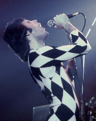 Freddie Mercury performing at New Haven Coliseum in New Haven, CT.